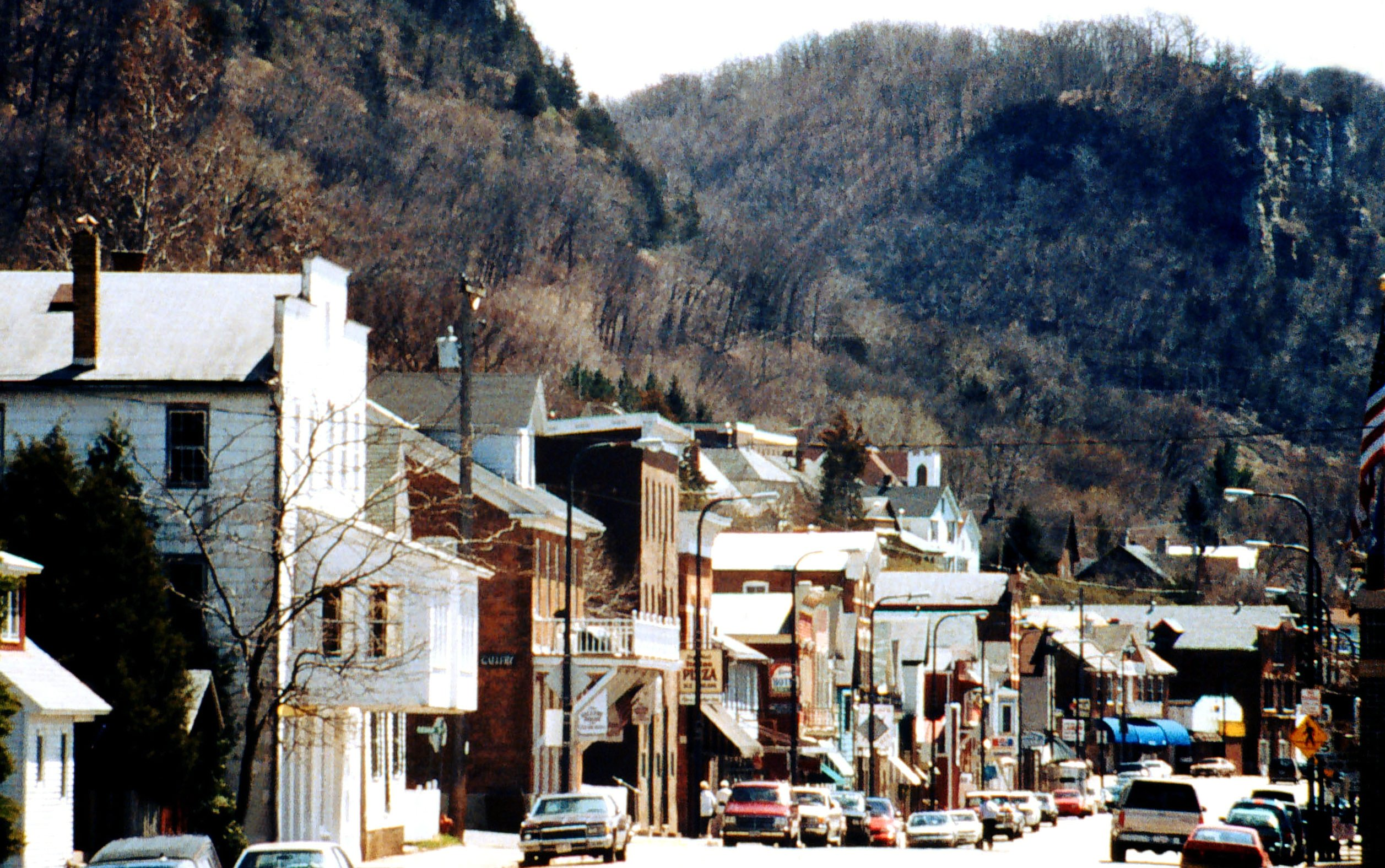 Alma, Wisconsin's historic business district.